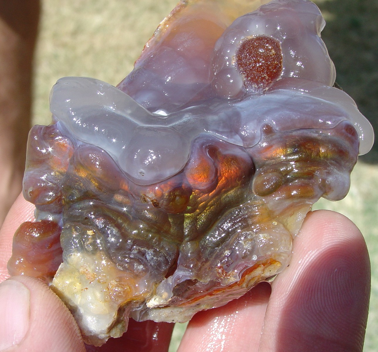 High Grade Slaughter Mountain Arizona Fire Agate Rough, Source Maricopa Mining LLC &